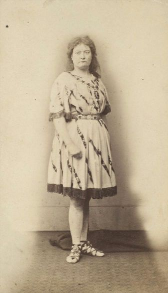 Carte de visite photograph of actress Alice Marriott (1824-1900), as Hamlet.